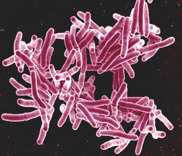 Scanning electron micrograph of Mycobacterium tuberculosis bacteria, which cause TB. Credit: NIAID